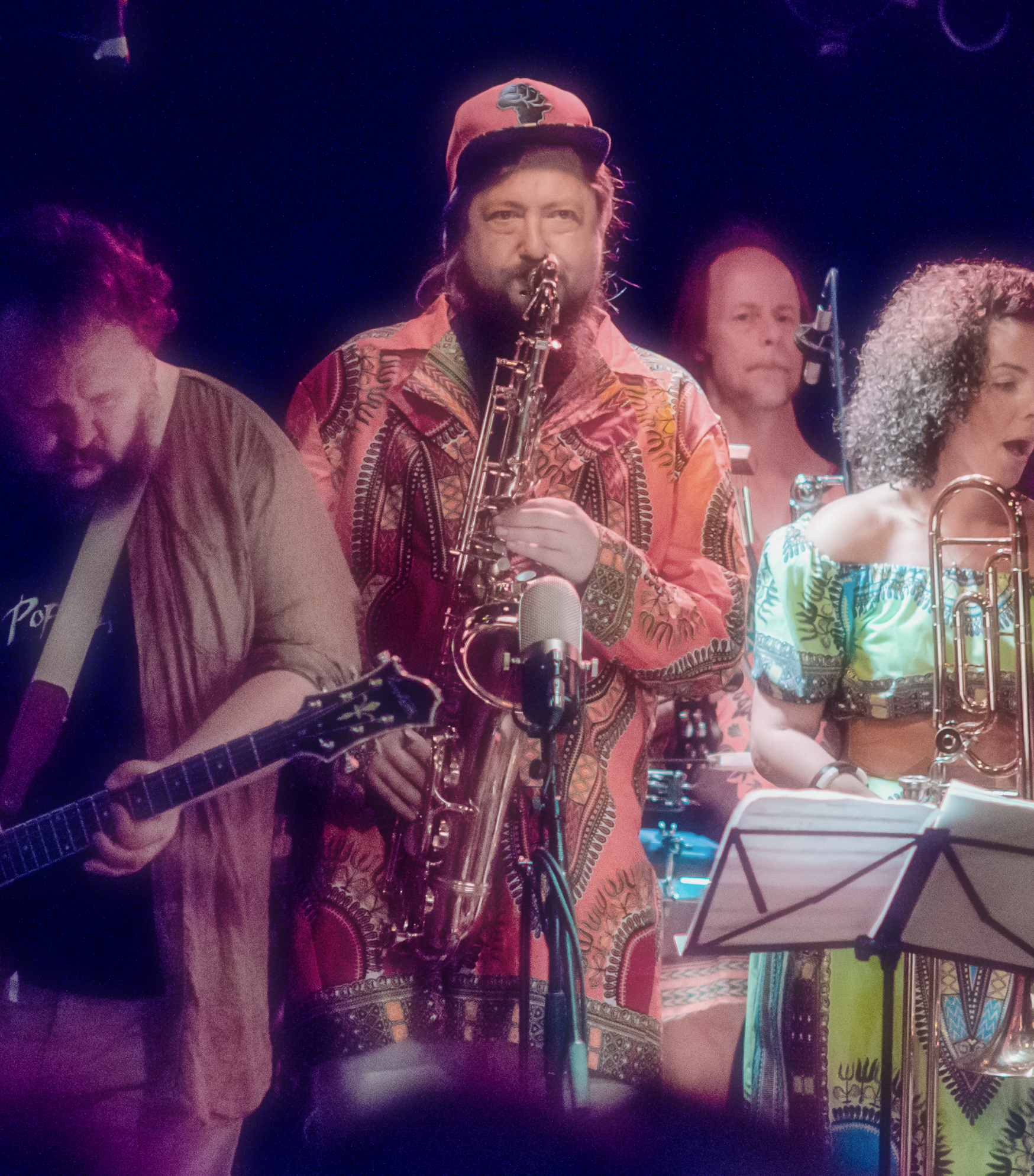 gig at Tampere